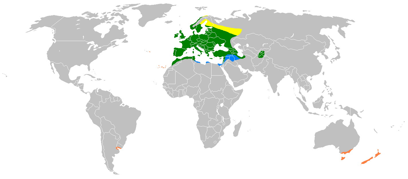 Distribution map of Carduelis chloris.Yellow: Breeding summer visitor Green: Breeding resident Blue: Non-breeding winter visitor Orange: Human-introduced populations